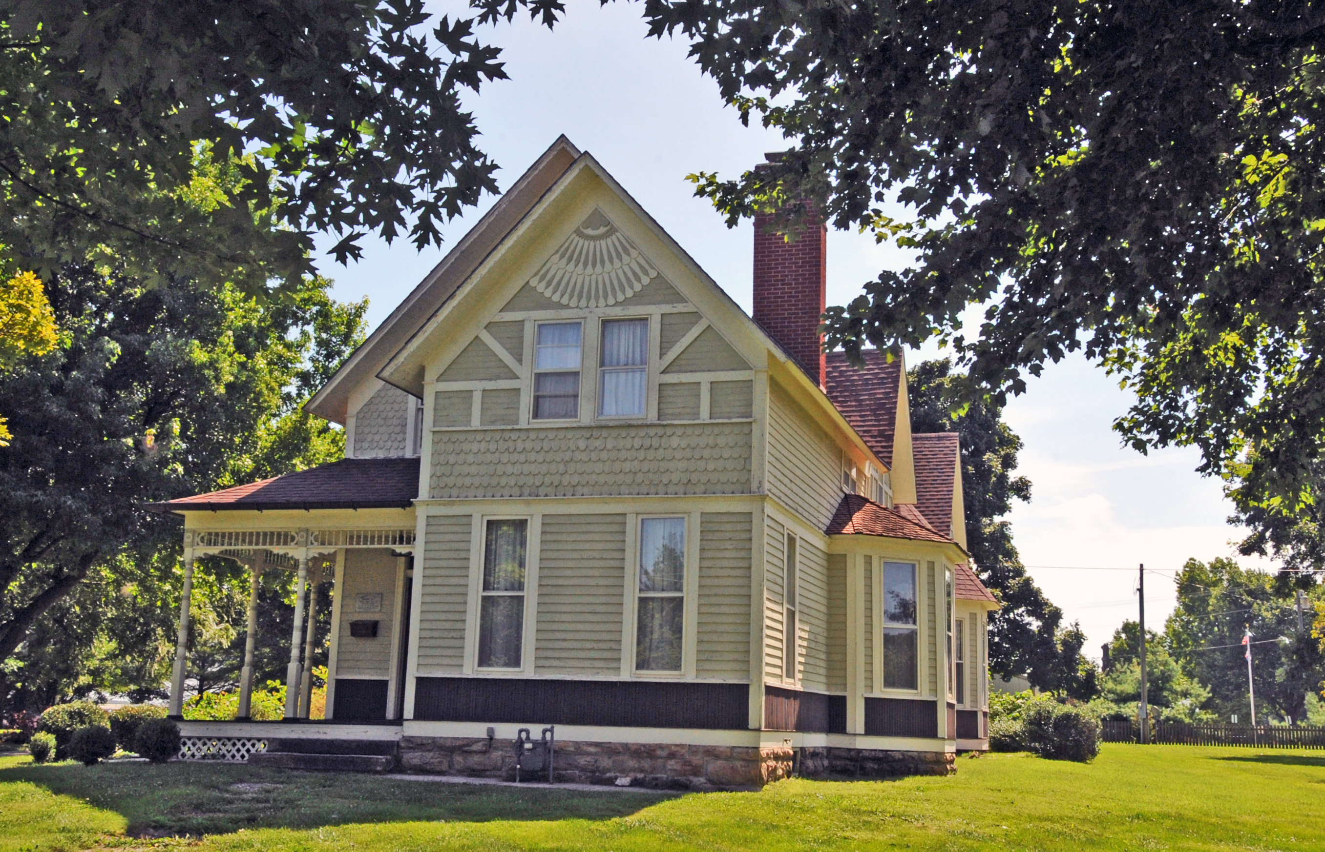 BUILT CIRCA 1886 FOR EARLY SETTLERS OF REPUBLIC IN CARPENTER QUEEN ANNE STYLE. ONE OF THE OLDEST HOUSES IN REPUBLIC